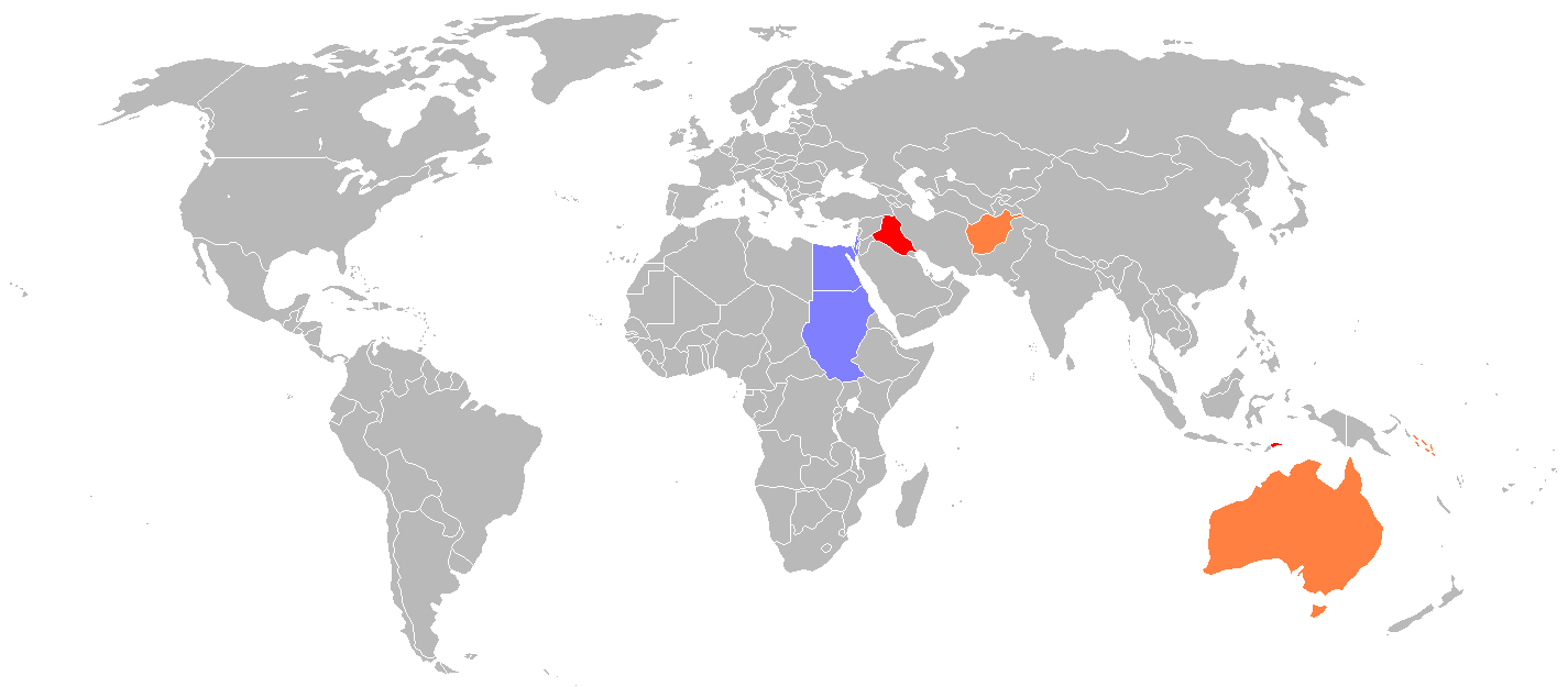 Australian Defence Force deployments as at 2 June 2007 using data from: Deployments of over 1000 personnel are coloured red, deployments of between 999 and 101 personnel are coloured orange and deployments of 100 or less personnel are coloured blue. The map was developed from Image:BlankMap-World.png.